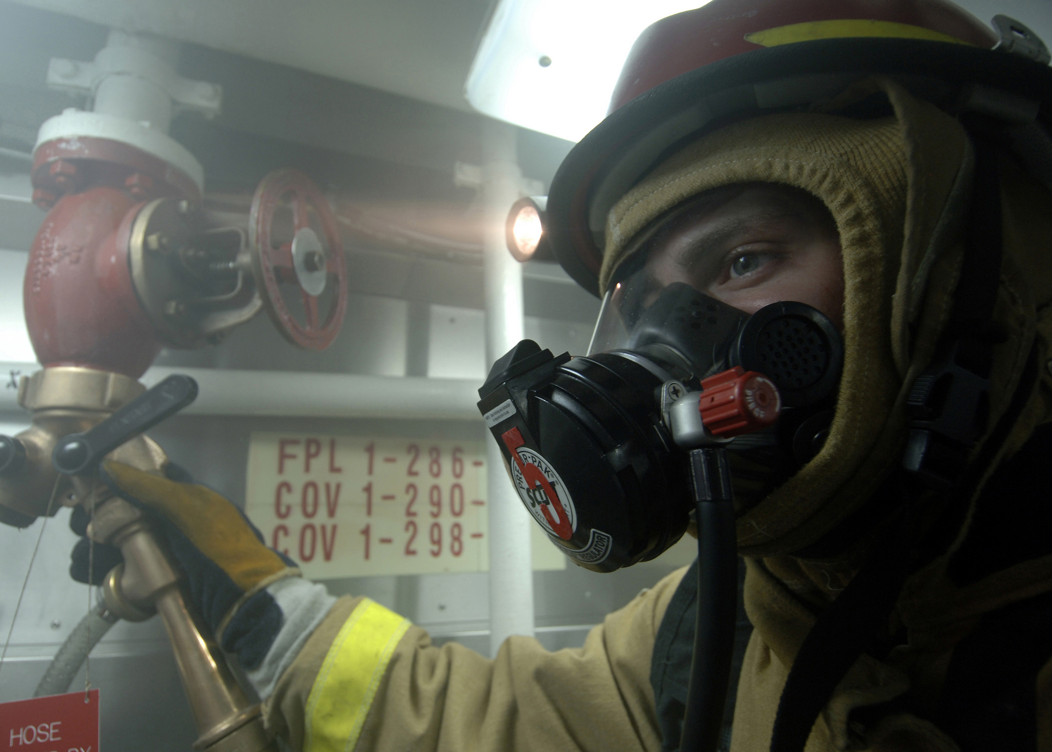 Atlantic Ocean (April 11, 2006) - Seaman Chris Short prepares to engage the plug valve of a fire hose during a simulated class bravo fire aboard the Ticonderoga-class guided missile cruiser USS Monterey (CG 61). Monterey is part of the George Washington Carrier Strike Group participating in Partnership of the Americas, a maritime training and readiness deployment of the U.S. Naval Forces with Caribbean and Latin American countries in support of U.S. Southern Command's (SOUTHCOM) objectives for enhanced maritime security. U.S. Navy photo by Photographer's Mate 3rd Class Michael D. Blackwell II (RELEASED)